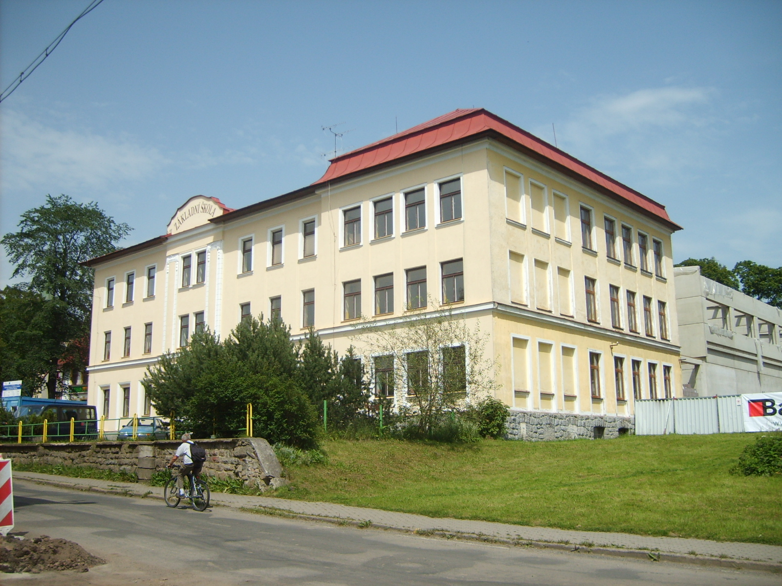 Elementary school building in Pernink, Carlsbad county, CZ